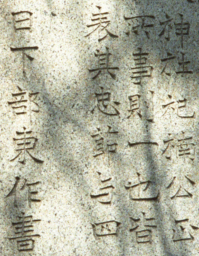 A detail of Stele (ACE1886):calligraphy by KUSAKABE MEIKAKU (1838-1922), OSAKA, Japan